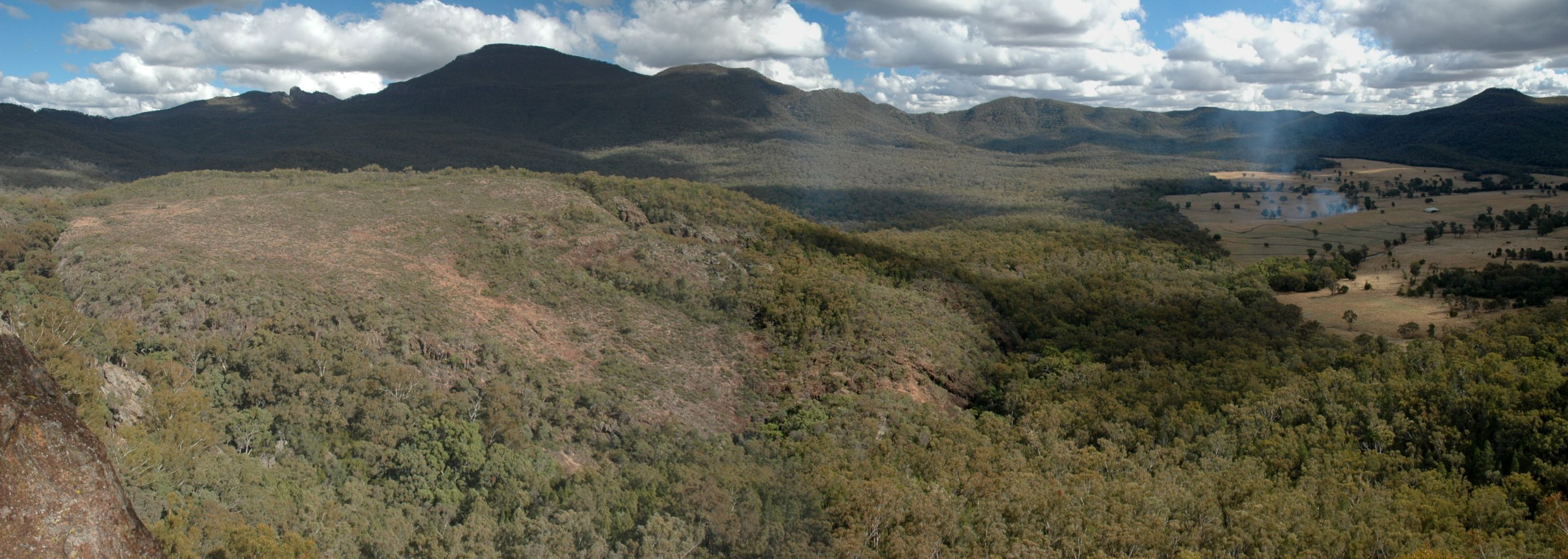 Grattai Mountain, Nandawar Range, New South Wales, Australia. Rises to 1,301 m (4,268 ft).[2] and is the most northerly peak in the range.